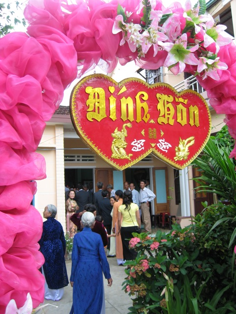 A sign reading "đính hôn" (engagement) hangs above an arch at the gate of a family home in Quang Nam Province, Vietnam.